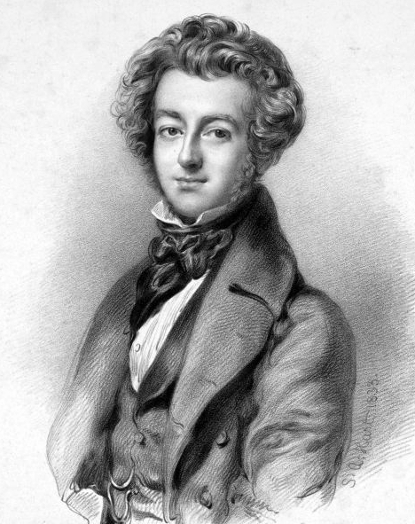 English pianist and composer Charles Kensington Salaman (1814-1901) after a drawing by Solomon Alexander Hart (1806-1881).